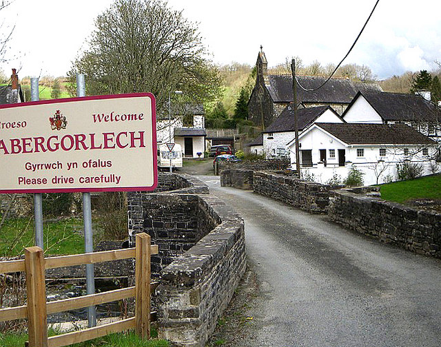 Abergorlech Looking across the bridge into Abergorlech.